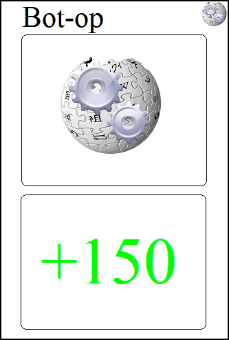 A card for the Wikipedia TCG (trading card game), a proposal to raise money for the Wikimedia Foundation's projects.